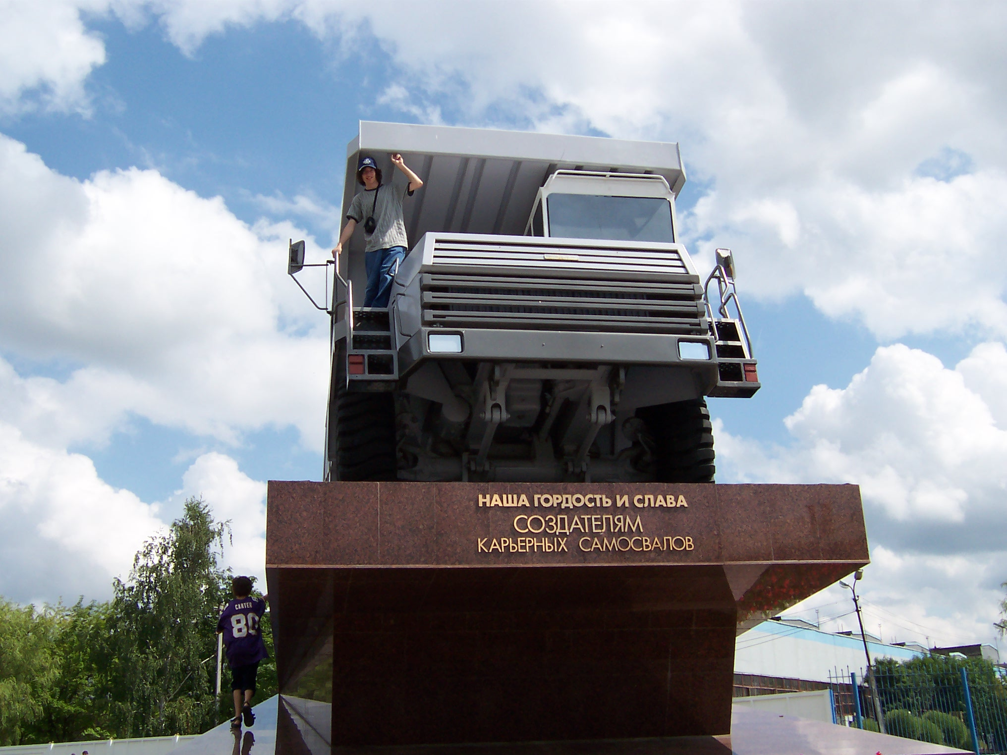 A truck outside of the BELAZ factory in Zhodino, Belarus